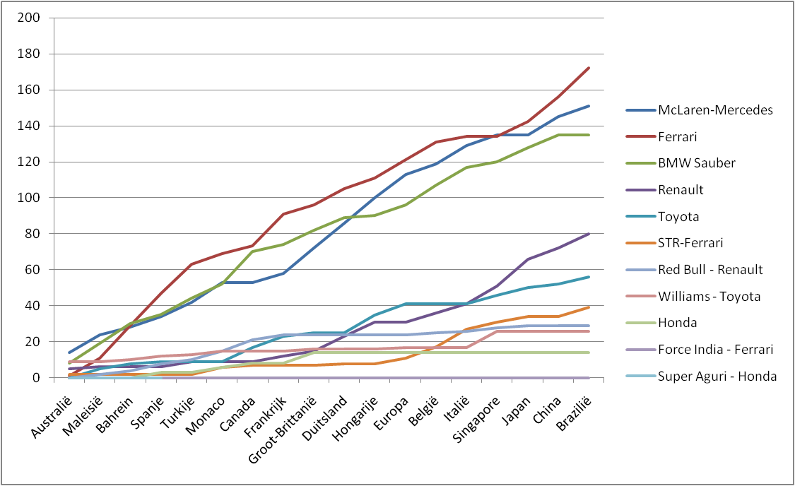 Graph of the team standings of the Formula 1 World Championship. Data from , created with Microsoft Excel